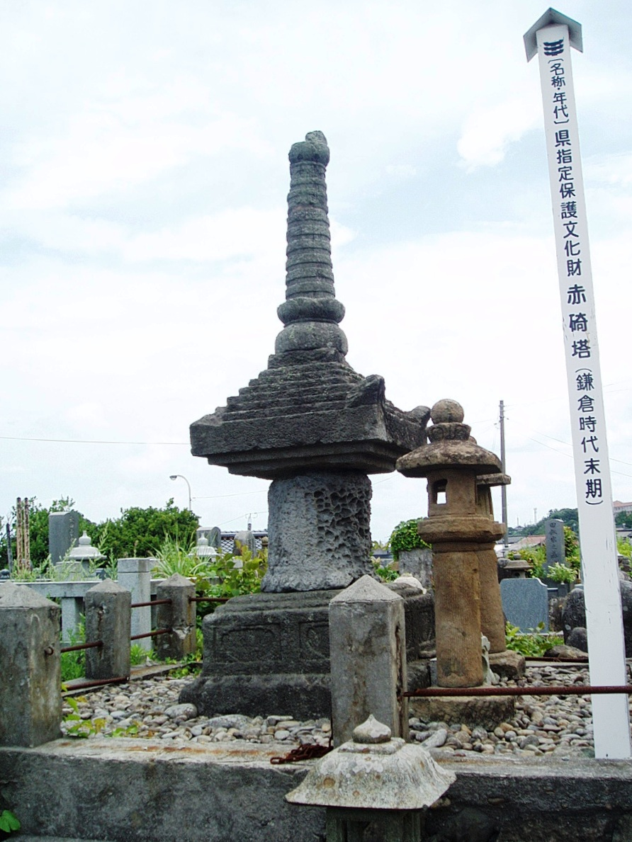 Akasaki tō, a kind of pagoda built during the Kamakura period. Located in Akasaki, Kotoura, Tottori, Japan.